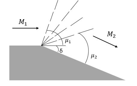 basic PM expansion